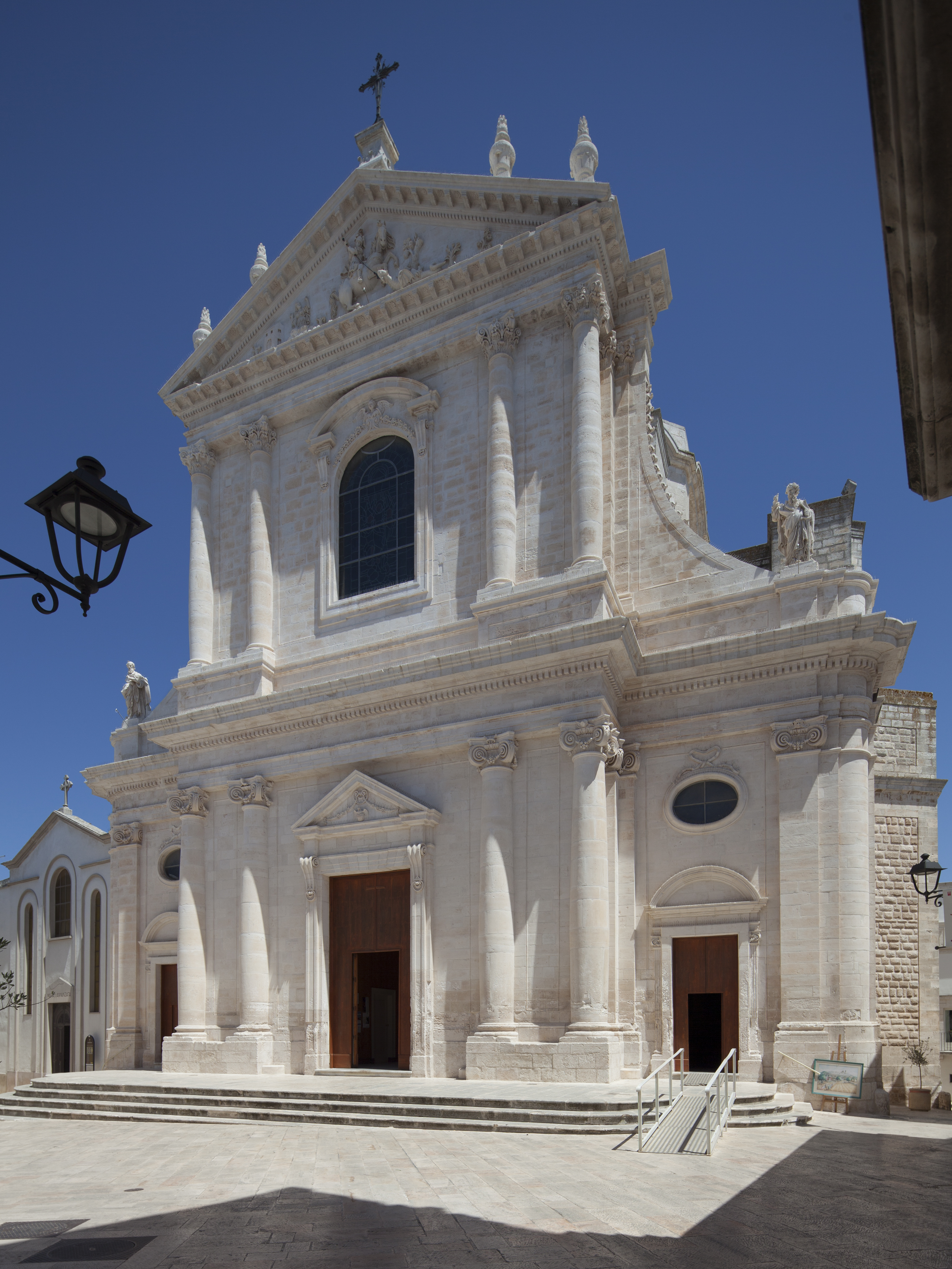 Saint George church (facade) - Locorotondo (BA - Italy)